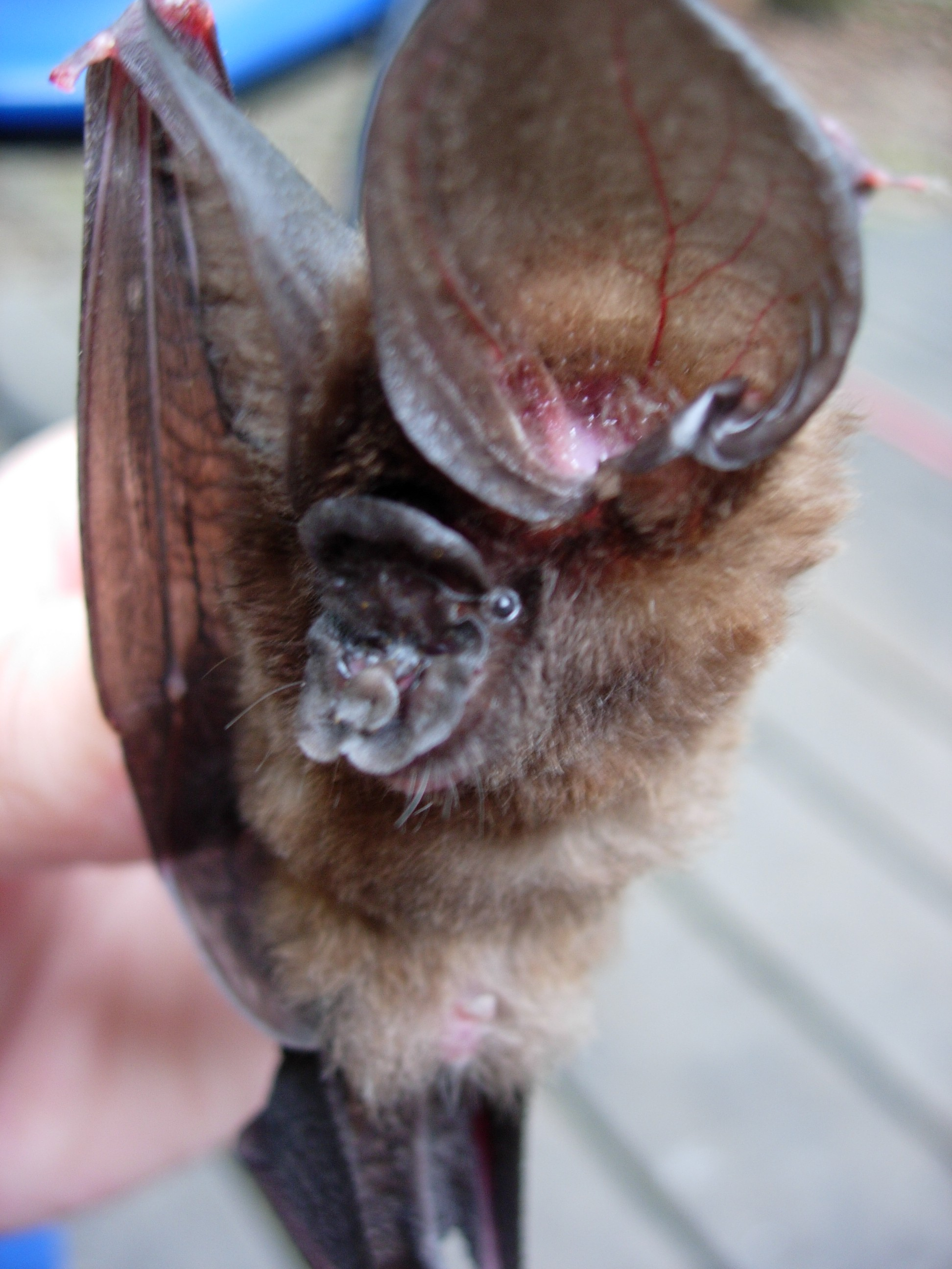 Chong Yee Ling & tabdulla; bat project